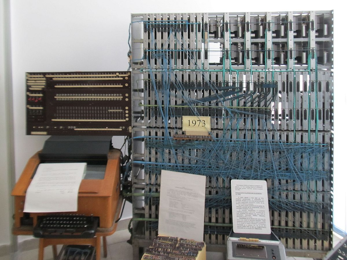 CETA, electronic computer similar to PDP-8, buildt at Politehnica University of Timișoara, 1973.